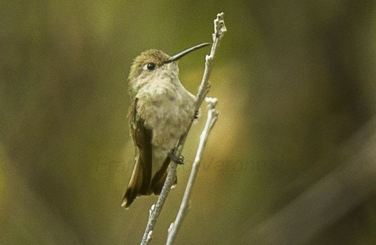 Tumbes Hummingbird (Leucippus baeri), Ecuador, cropped from original